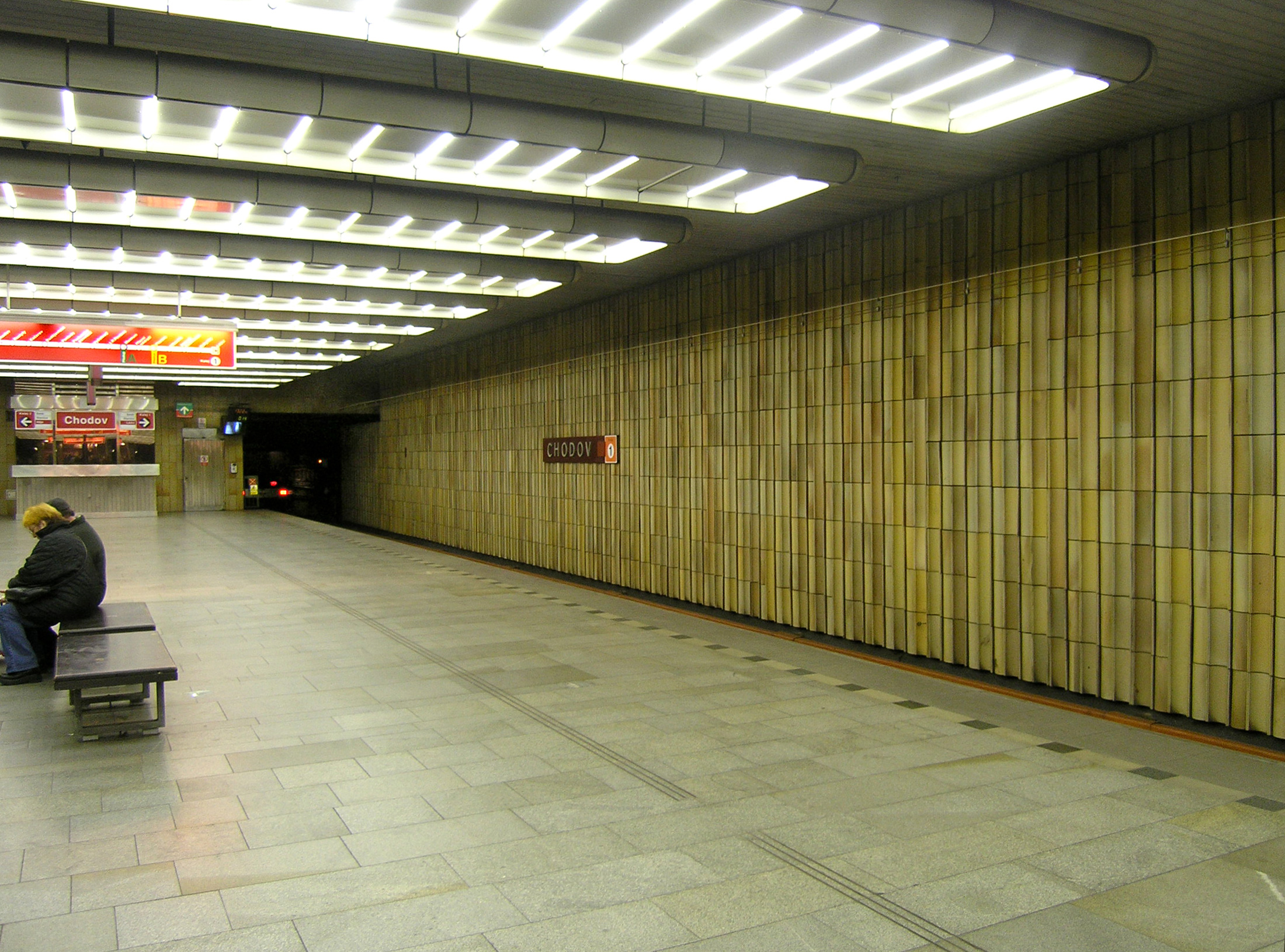 Underground station Chodov, Prague.